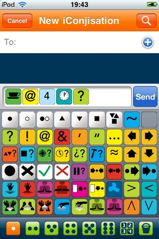 This is a screen capture of the main user interface for the iConji Messenger app. Details are explained in the Implementation section of the iConji article at